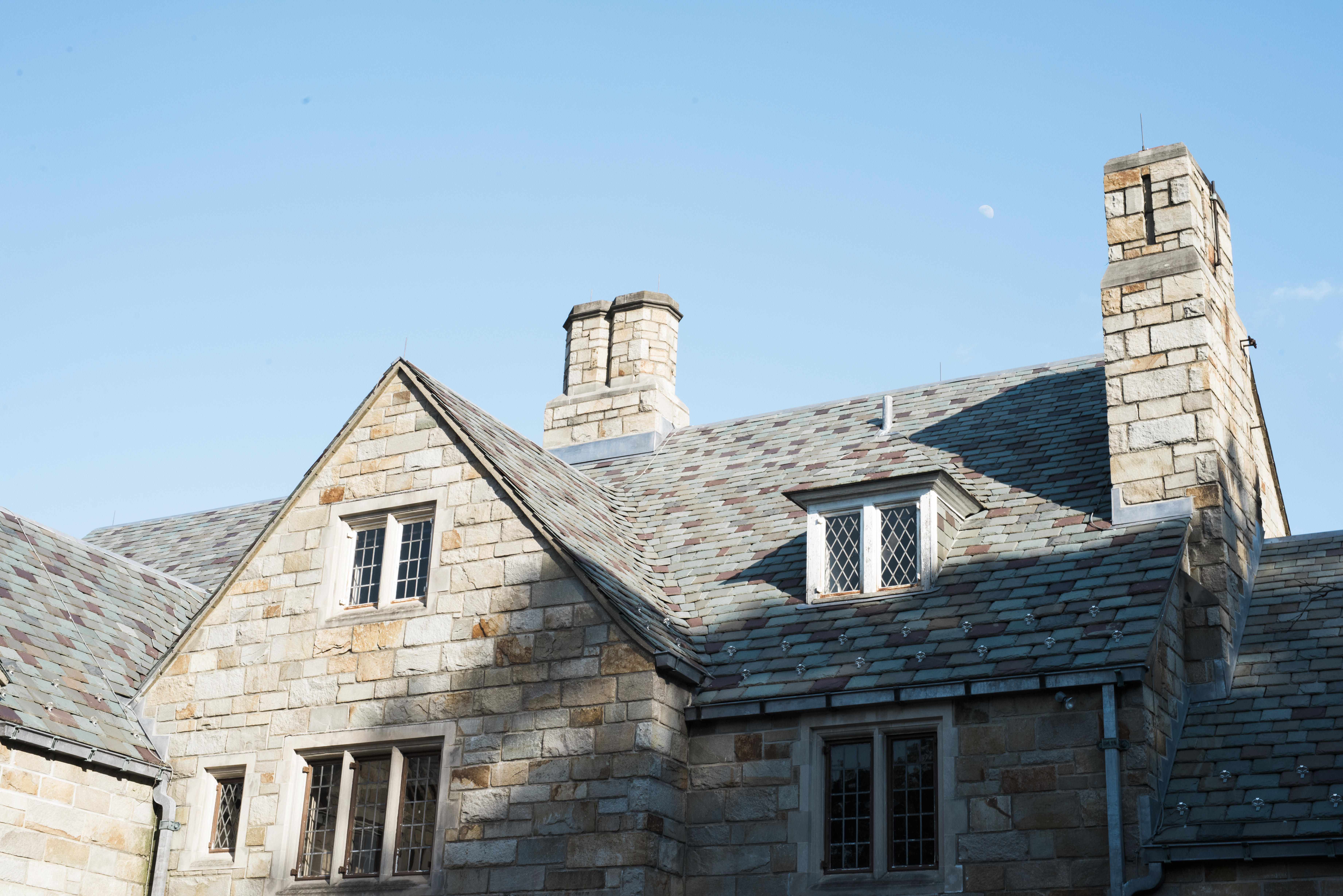 Gallaher Mansion is located in Norwalk, near Wilton CT.